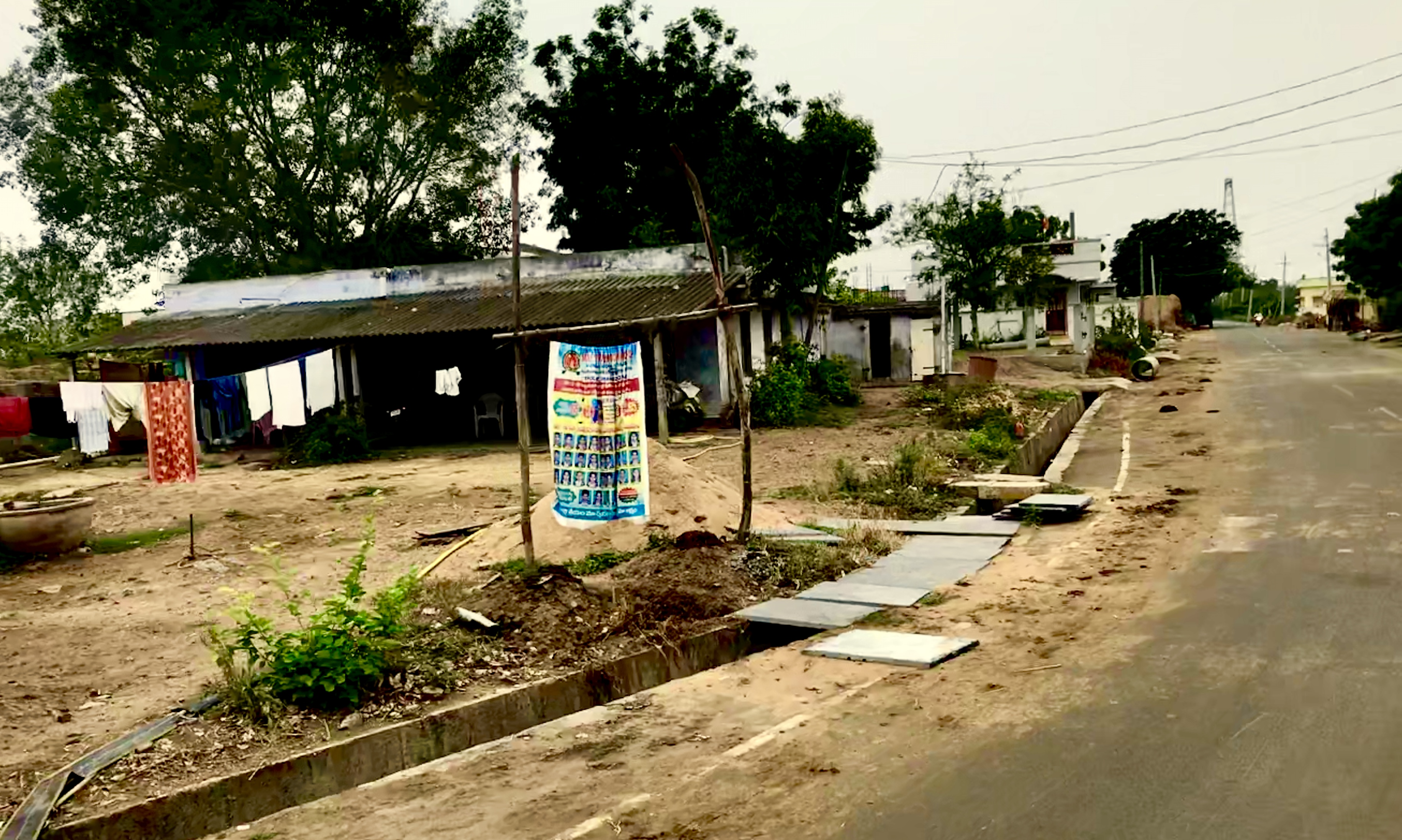 Vijayawada-Amaravathi road in Borupalem